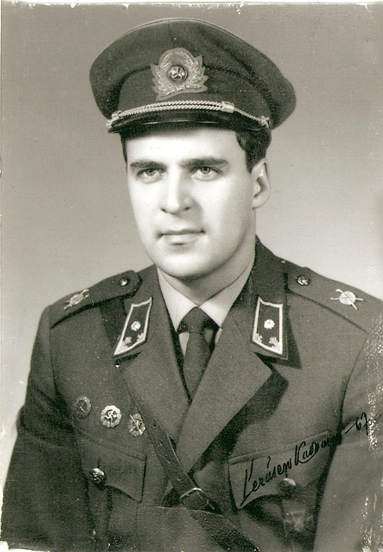 Reima Kampman